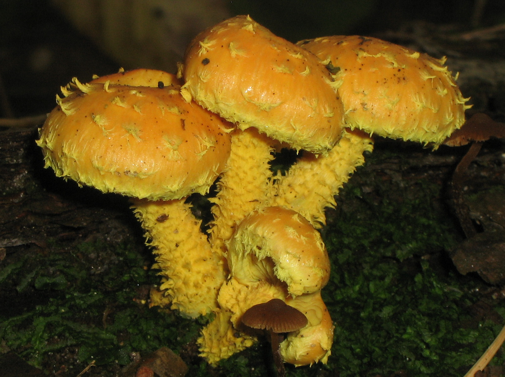 Pholiota flammans (Batsch) P. Kumm.Location: Chernihiv, Ukraine.Ecology: On a rotten deck. Was not possible to know which tree it was. The deck was rotten and the whole covered with moss.